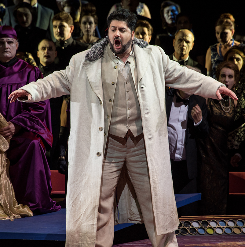 Yusif Eyvazov in the role of Calaf, "Turandot" by Puccini, Staatsoper Wien (= Vienna State Opera), April 2016